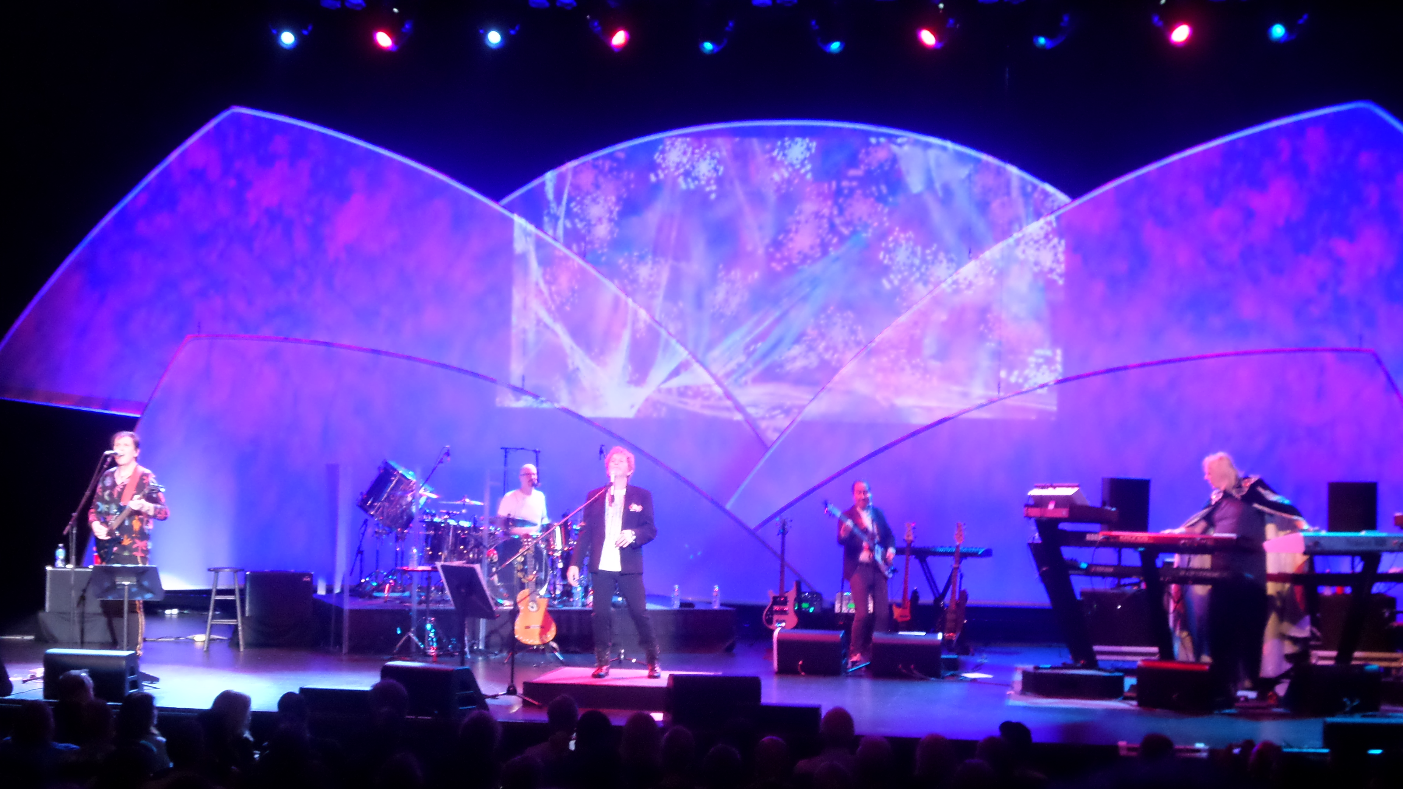 ARW performing in Clearwater, Florida. Left to right: Trevor Rabin, Louis Molino III, Jon Anderson, Lee Pomeroy, and Rick Wakeman